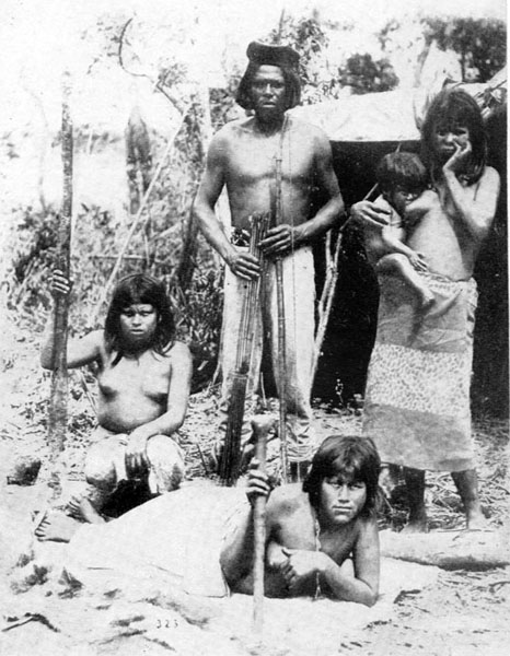 Toba chieftain and his wives. Scientific Expedition to the rivers Paraguay, Alto Paraná and Iguazú, in 1892.